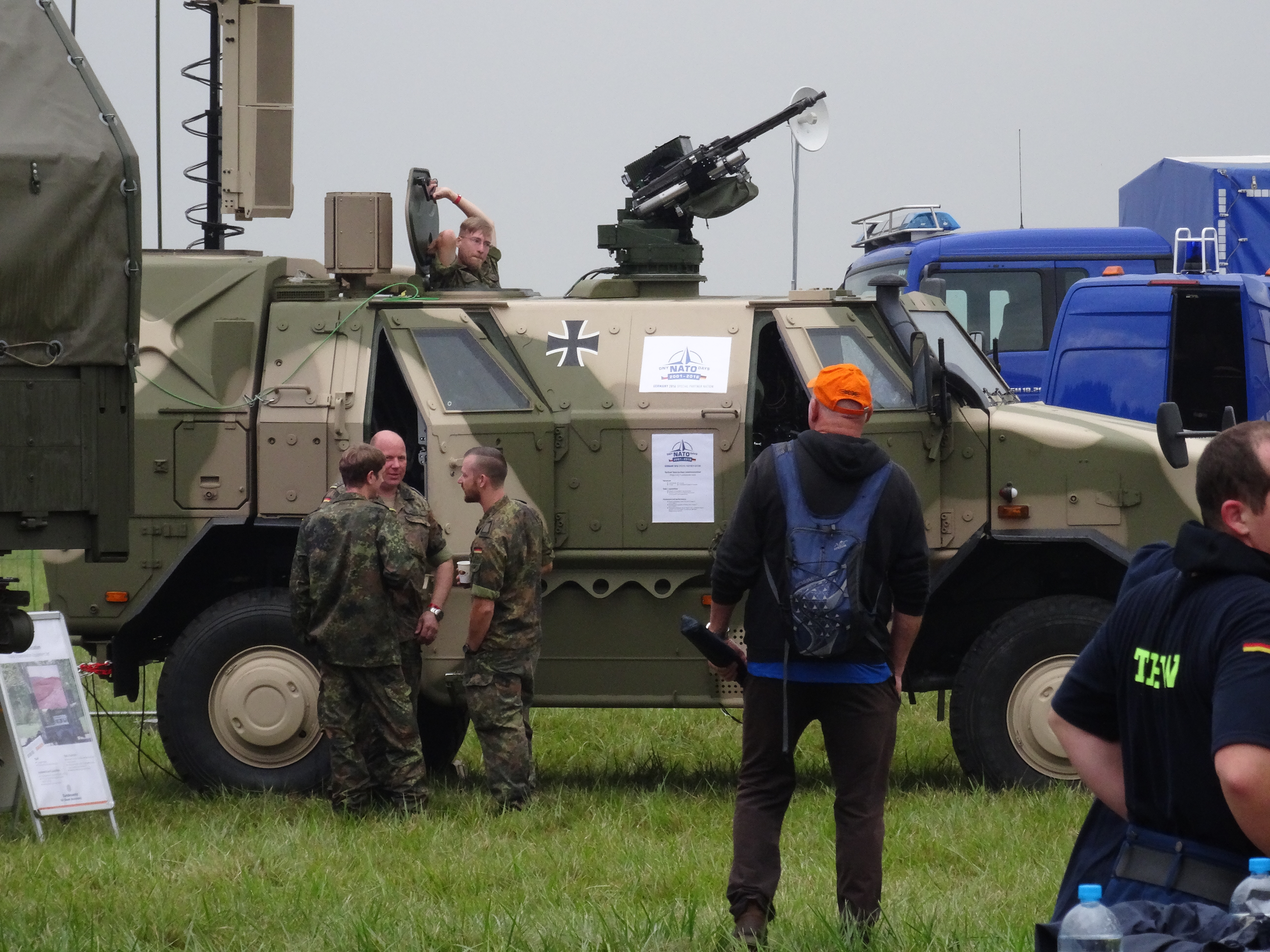 German Dingo 2 with FLW 100 at the 2016 NATO Days in Ostrava